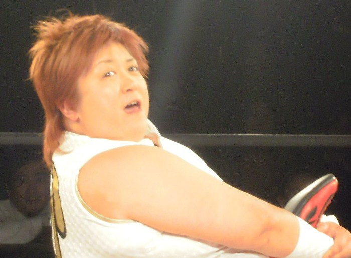 Japanese professional wrestler,Kaoru Ito. July 11 2010,OZ ACADEMY Shinjuku FACE.